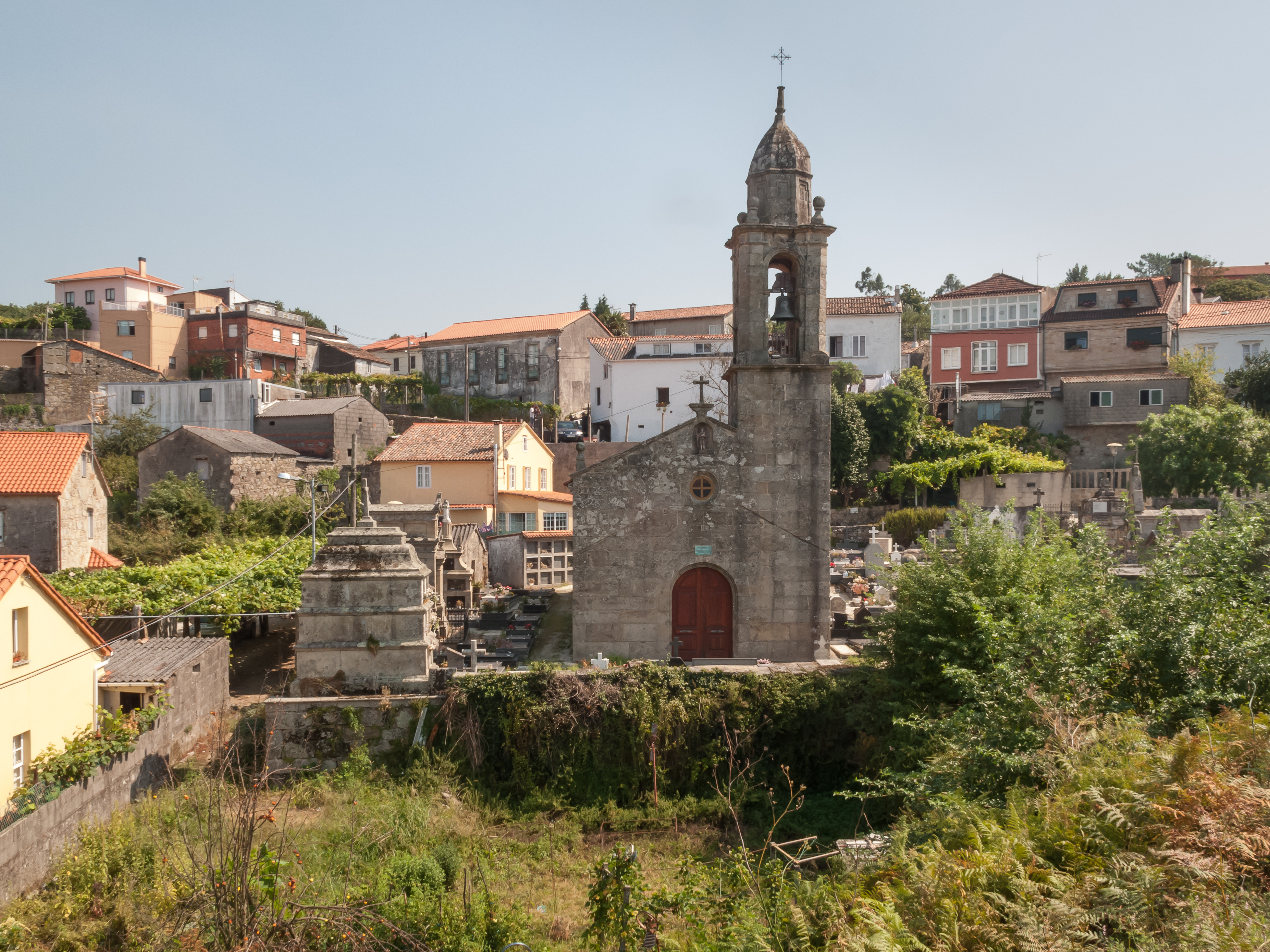 Chapel of Saint Julian, Pontecesures, Galicia (Spain)